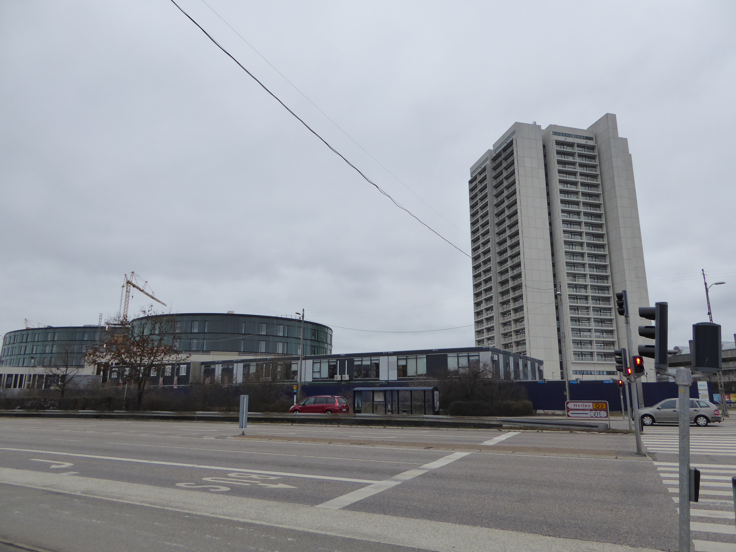 The road Herlev Ringvej at Herlev Station in Copenhagen. When Hovedstadens Letbane opens in 2025 it will have at station in the middle of the road.